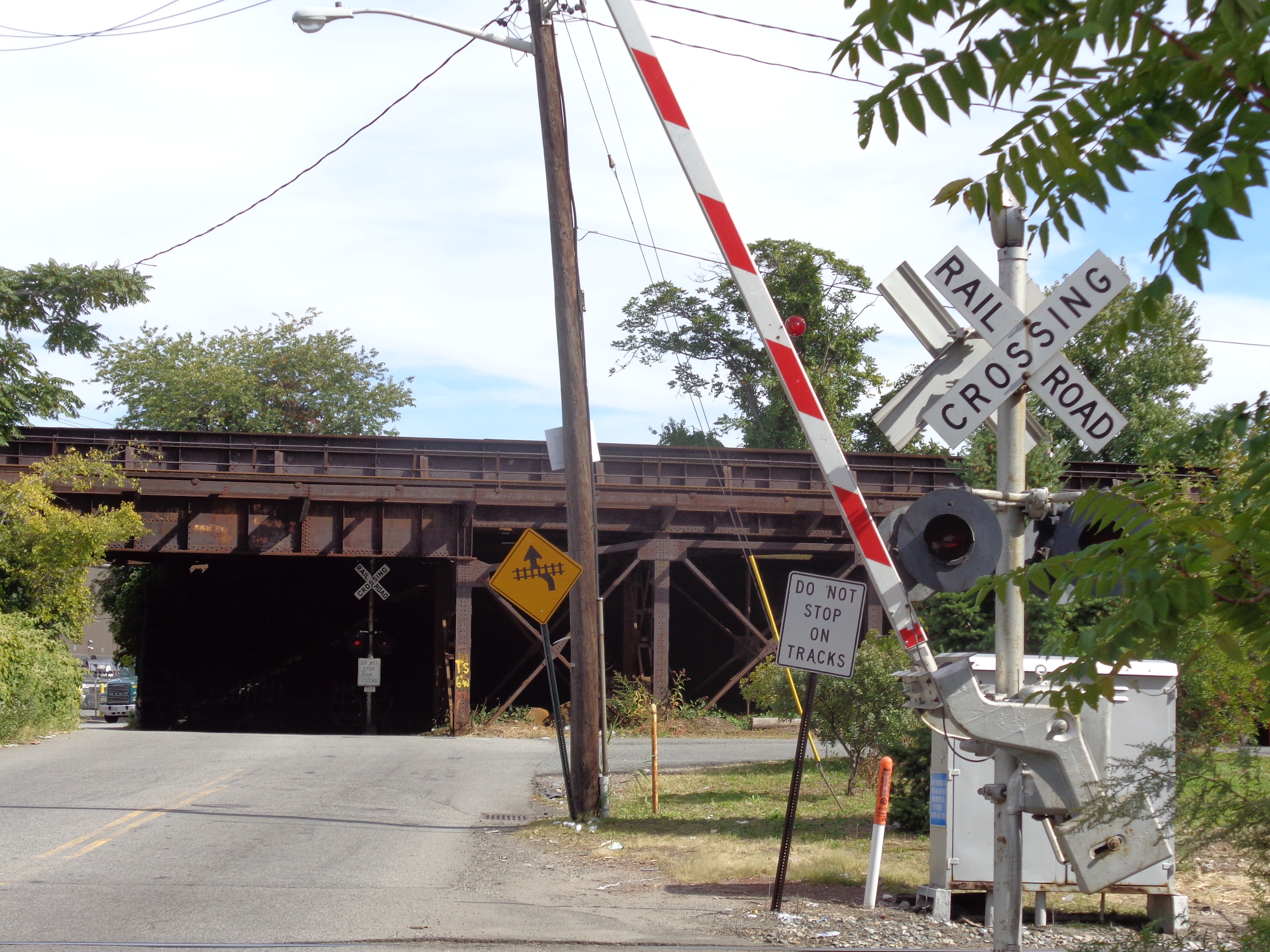 New York, Susquehanna and Western at 83rd Street north of disused Granton Junction in Babbitt, North Bergen w/ Conrail (Erie's Northern Branch) & CSX (former NYC's West Shore) River Line in background